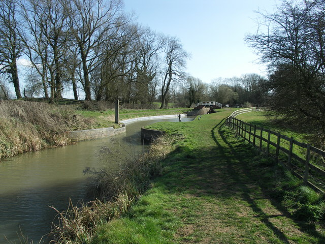 Approach to Welford Lock. The canal passes through the narrows where there was once a swing bridge and under the footbridge into the lock.